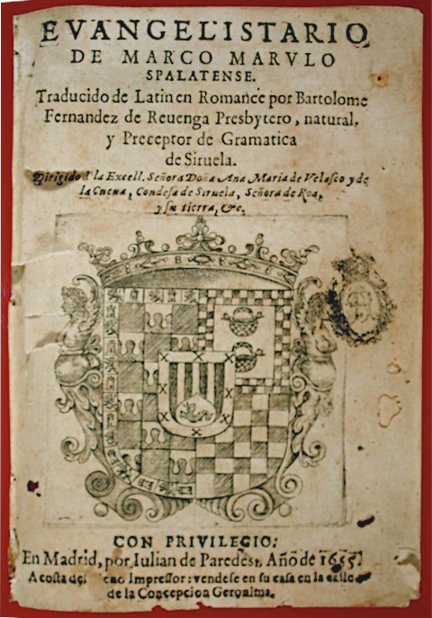 Marko Marulić's Evangelistarium published in Spanish in Madrid in 1655. Contains Croatian Coat of Arms in the middle.